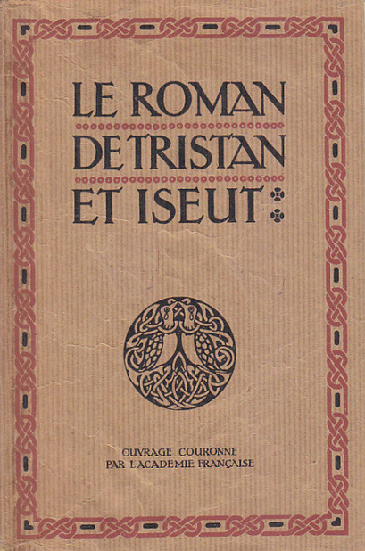 Book cover of Le Roman de Tristan et Iseut, by Joseph Bédier, published in Paris, by Henri Piazza & Cie — edition acclaimed by the Académie Française.